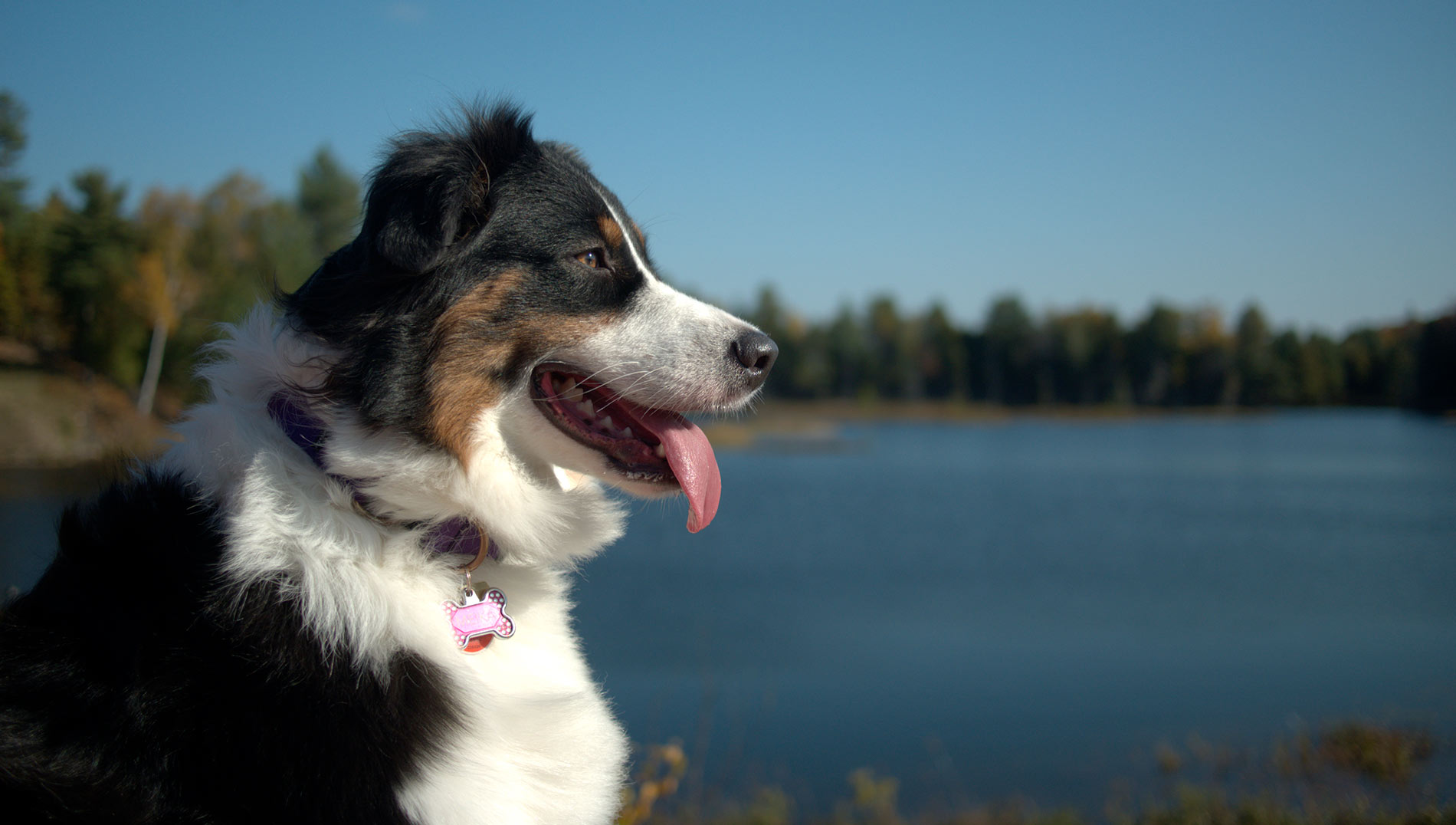 Meika the black-tri Aussie